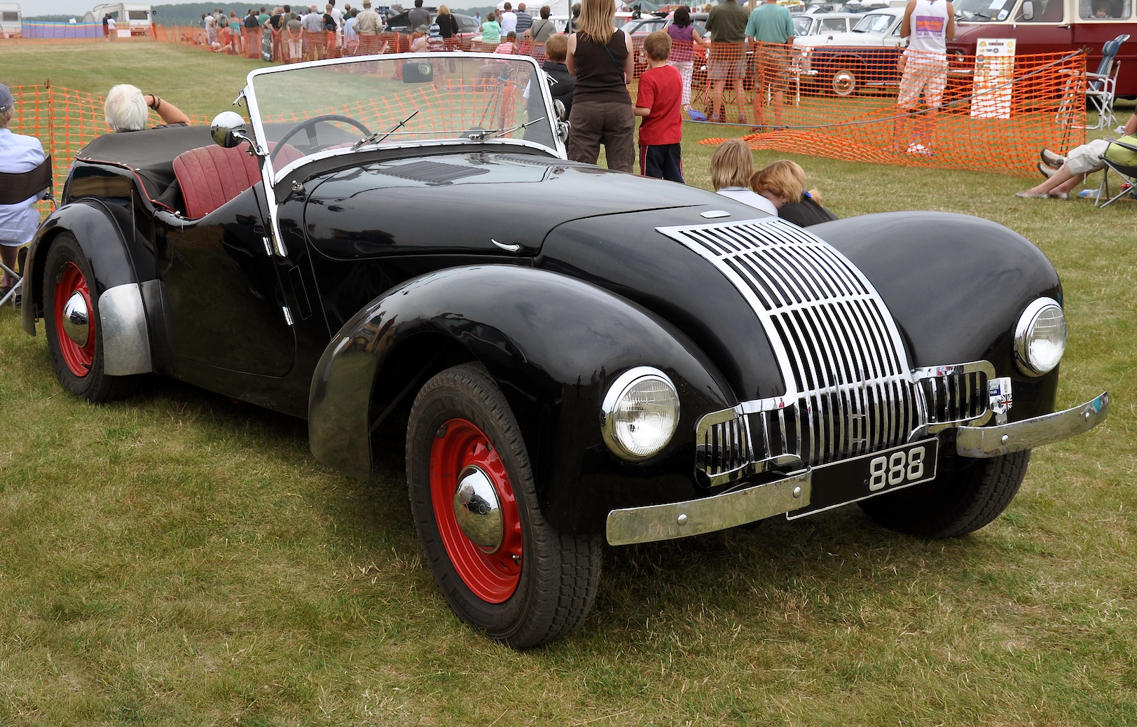 1948 Allard L four-seat Tourer. This is chassis no 71L345, engine no 7186856 (a 3.